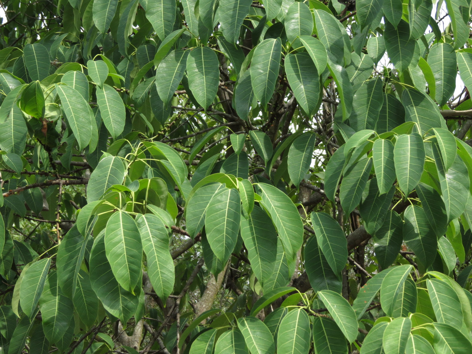 Ficus Tsjahela seen in Nilgiri Biosphere Nature park, Anaikatty Coimbatore.